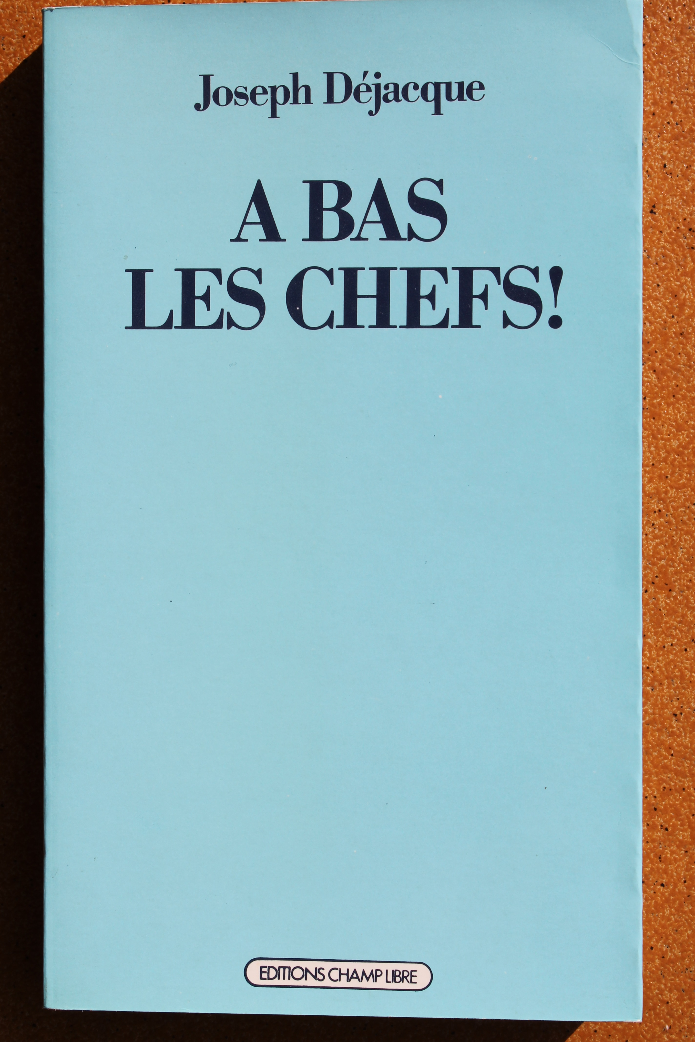 Joseph Déjacque book (A bas les chefs !)